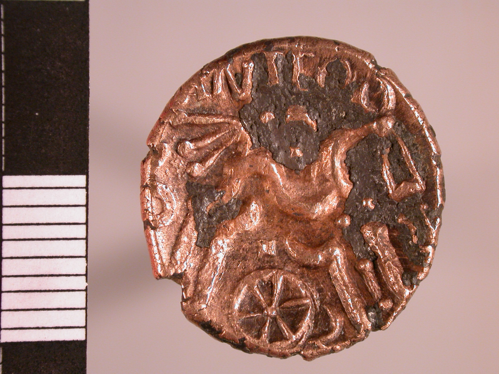 Gold Dobunnic D-type stater of ANTED (10 BC - AD 40)